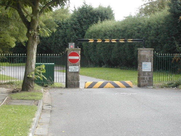 Gated Community Barrier. Radio controlled barrier set up by the residents association of Beeston Fields Drive. This one is at the Western End of the drive. Pedestrians and kids on bikes can still get through...